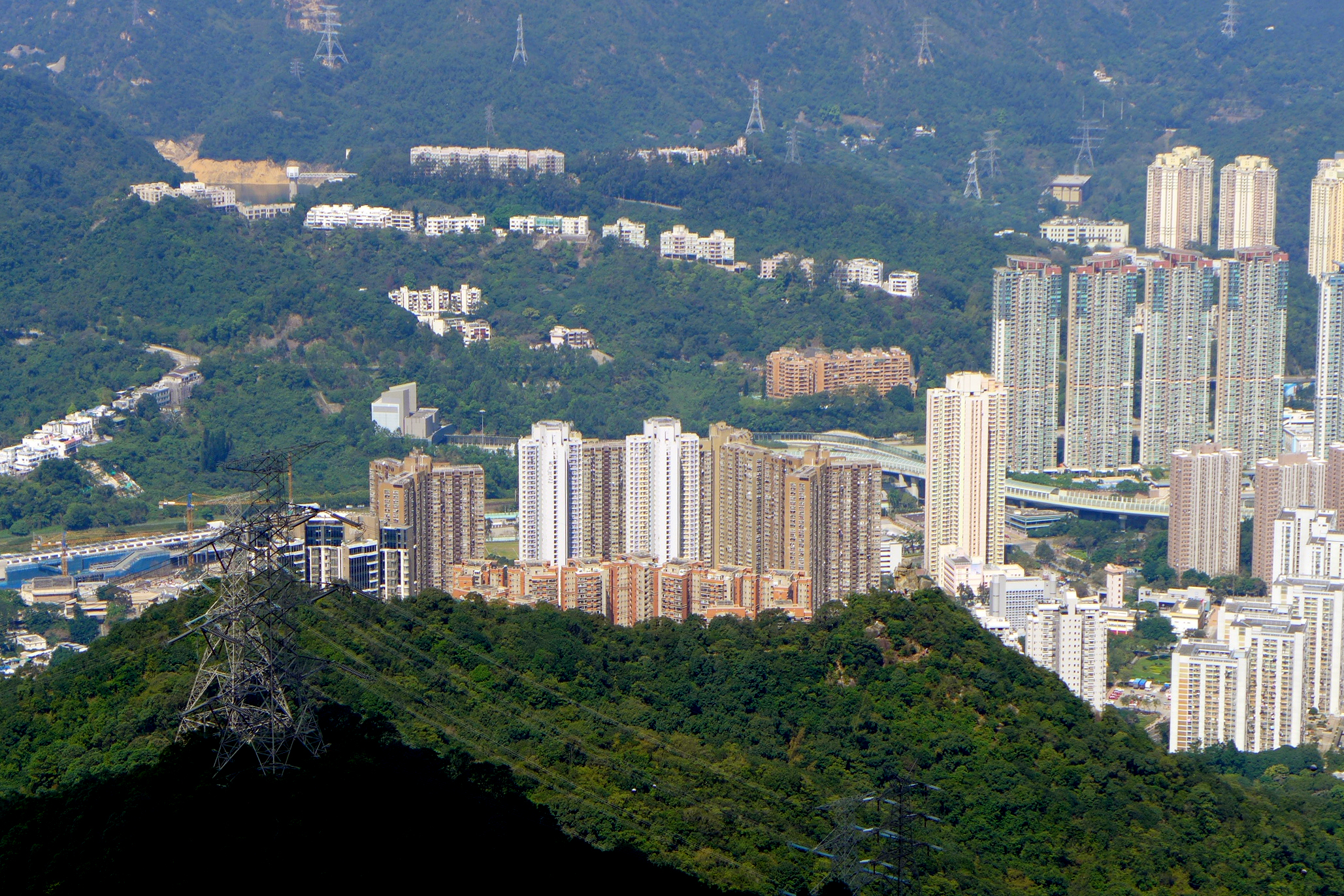 Shatin Heights